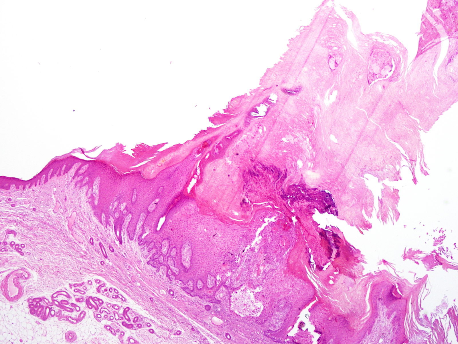 Actinic (solar) keratosis (magn. 2×)